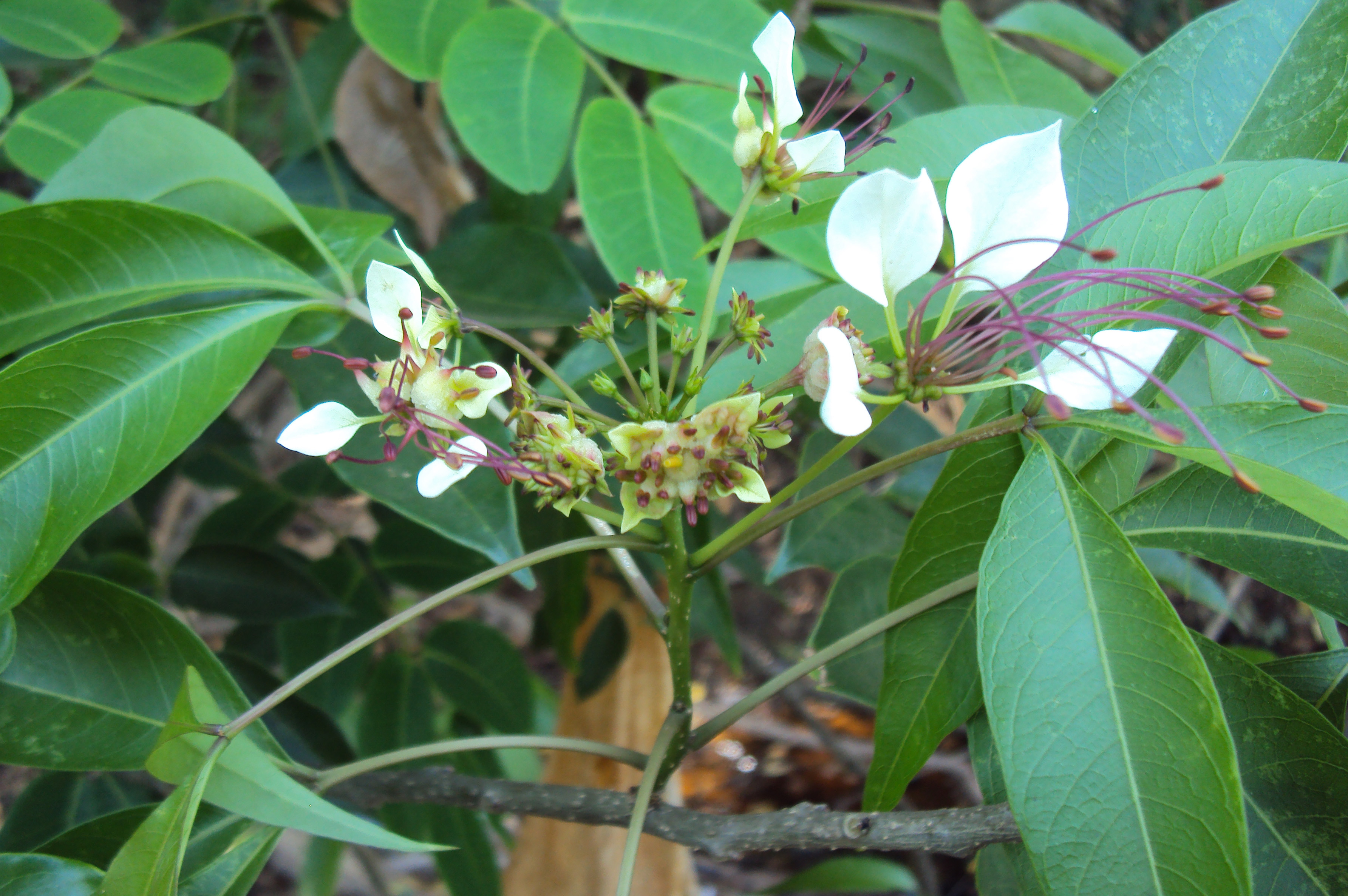 Crataeva magna